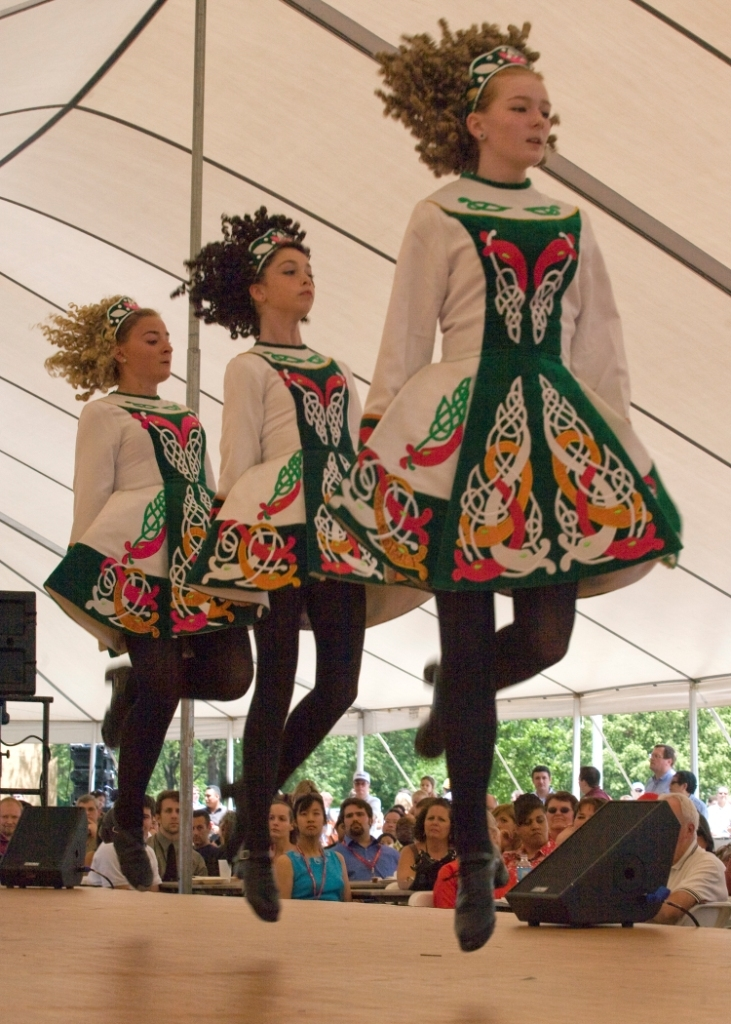 Members of the Davis Academy of Irish Dance leap before the Picatinny crowd